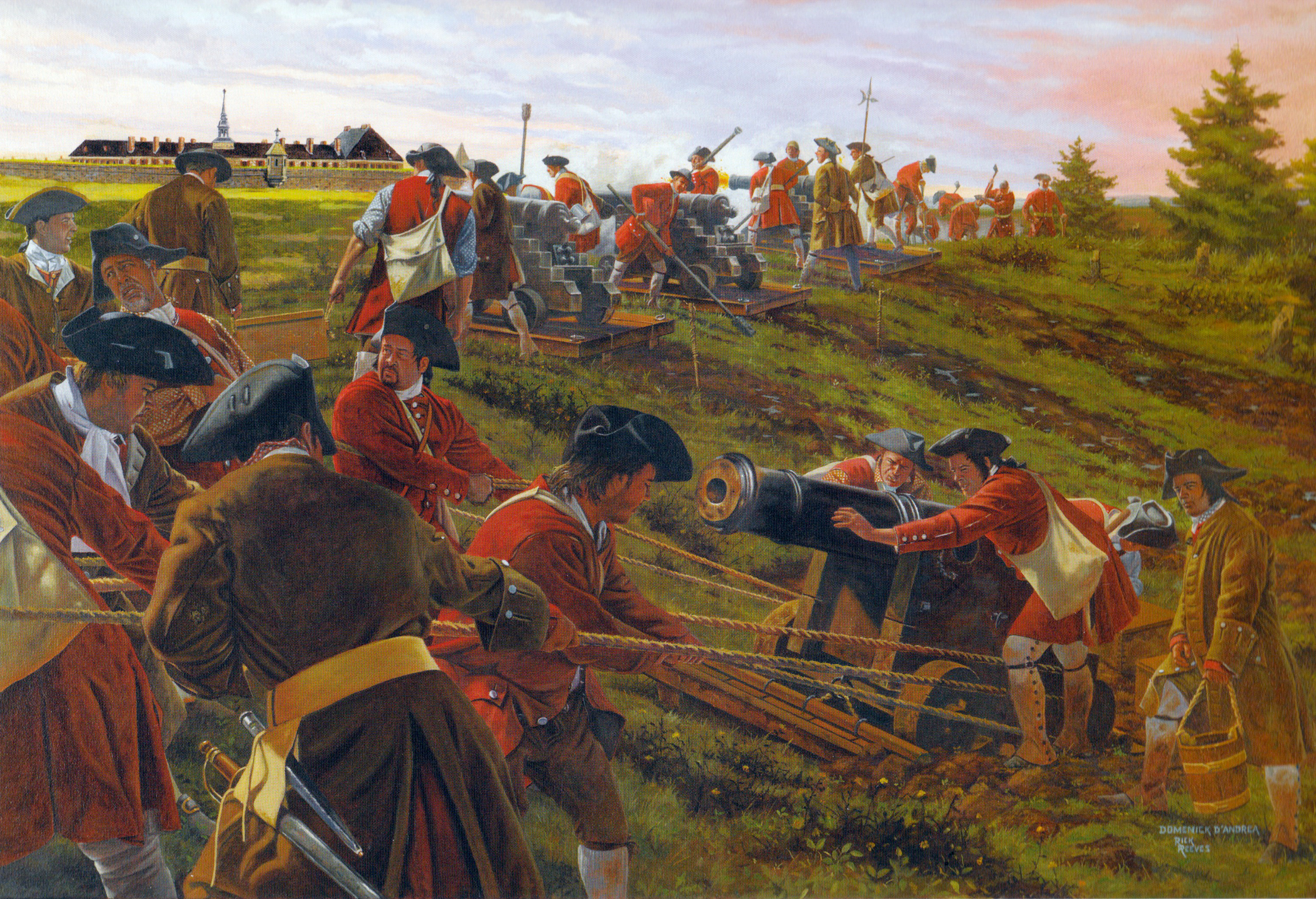 The Siege of Louisbourg by Domenick D'Andrea and Rick Reeves for the states of Massachusetts, Connecticut, Rhode Island and New Hampshire, 1745.